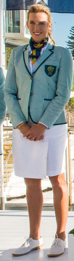 the Australian beach volleyball player Louise Bawden at a team presentation for the Olympic Games 2016